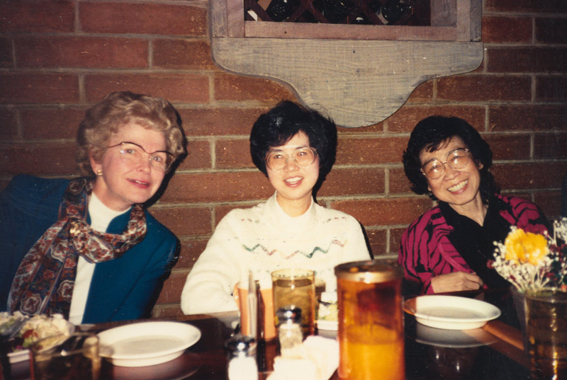 Socializing over lunch. From left to right, Barbara Paulson, Vickie Wang and Helen Ling. Wang emigrated from Hong Kong to the United States in 1969, and Ling hired her in 1973. She developed trajectory and orbit determination codes for several missions, including the Viking missions to Mars. In 1989, she moved to a command and sequence software group, serving the Galileo mission to Jupiter. She's now involved in the development of ground software for several JPL missions. Image credit: JPL